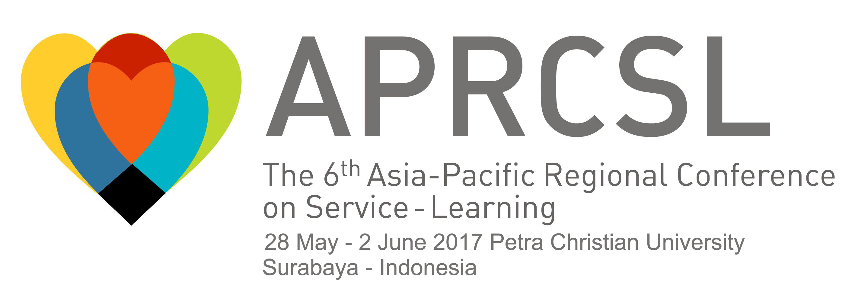 Logo APRCSL new